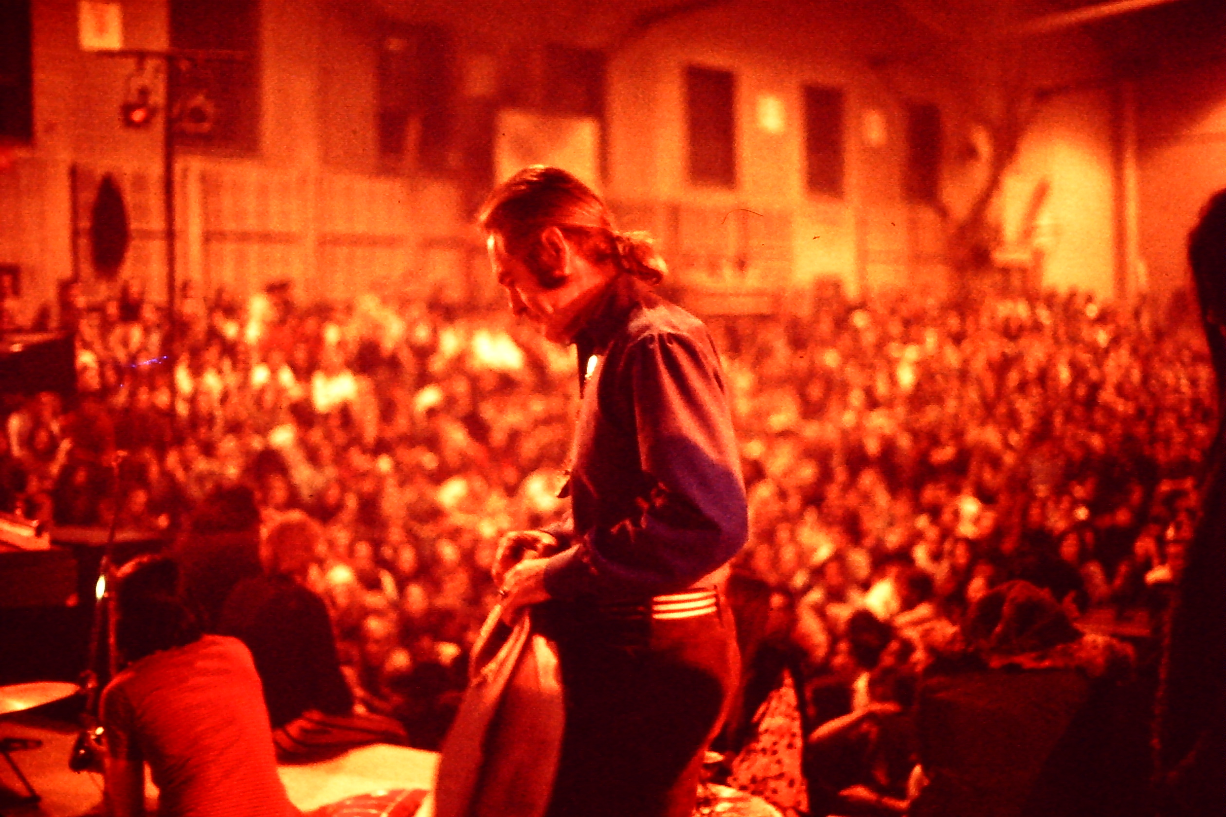 Timothy Leary on a lecture tour; State University of New York at Buffalo (1969) (Buffalo, New York). NOTE: If redistributing my work, please credit my work with my name, Dr. Dennis Bogdan, since I am the original author, and please be consistent with the Creative Commons Attribution-ShareAlike 3.0 Unported License and the GNU Free Documentation License agreements. Note: Image added to Psychedelia film (July 14, 2020) documentary film. Drbogdan (talk) 12:37, 19 July 2020 (UTC) Note: Image featured in MuckRock NewsLetter (April 13, 2017) article. Drbogdan (talk) 16:03, 22 May 2017 (UTC) Note: Image featured in Slate Magazine (January 3, 2017) article. (Drbogdan (talk) 17:31, 28 March 2017 (UTC)) Note: Image featured in Kill Screen Magazine (July 5, 2016) article. (Drbogdan (talk) 21:01, 28 March 2017 (UTC)) Note: Image featured in Lateral Magazine (May 2, 2016) article. Drbogdan (talk) 15:55, 22 May 2017 (UTC) Note: Image featured in Vice Magazine (October 20, 2014) article. (Drbogdan (talk) 20:44, 28 March 2017 (UTC))